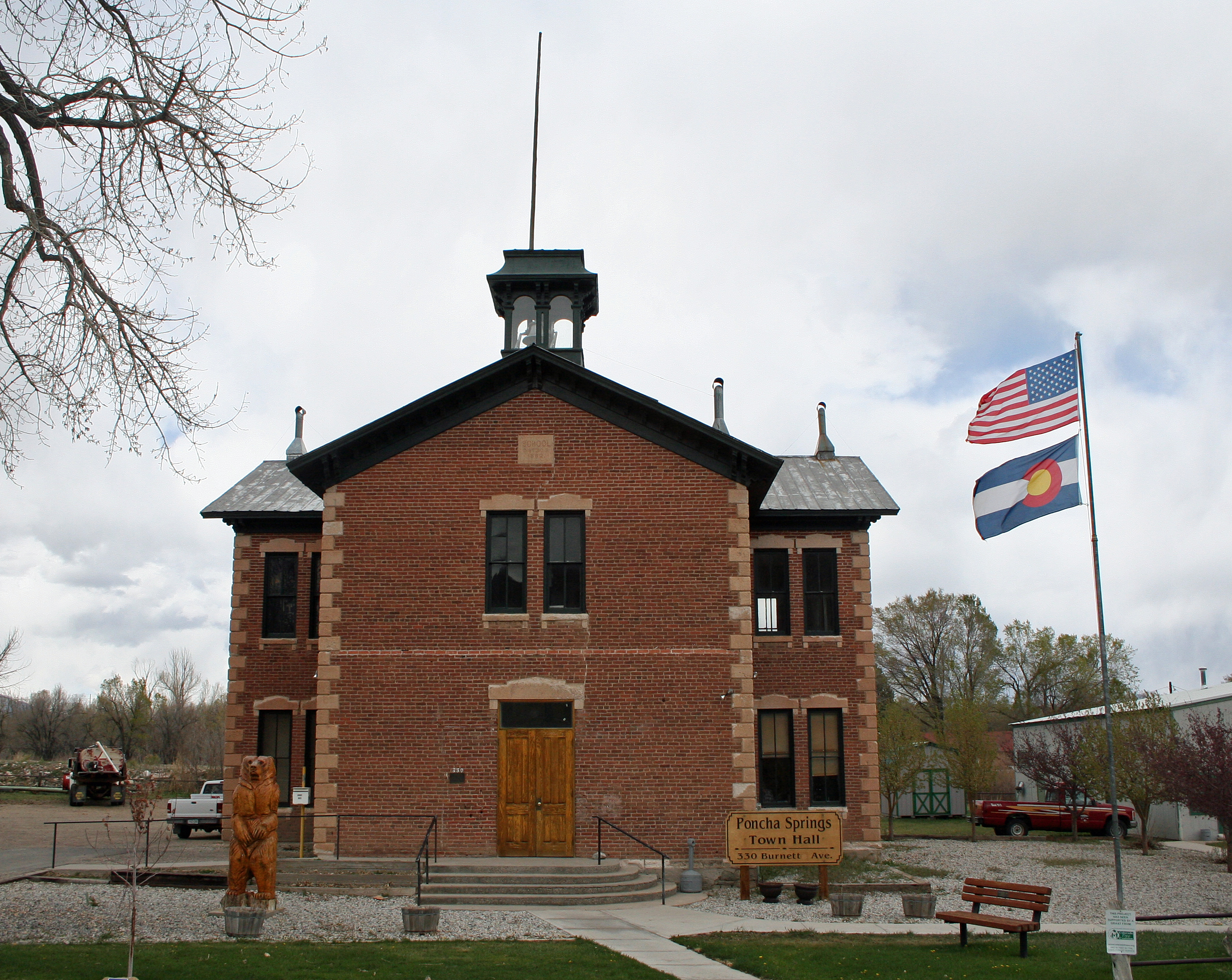 The Poncha Springs Schoolhouse, located in Poncha Springs Colorado. The building is now used as the town hall.